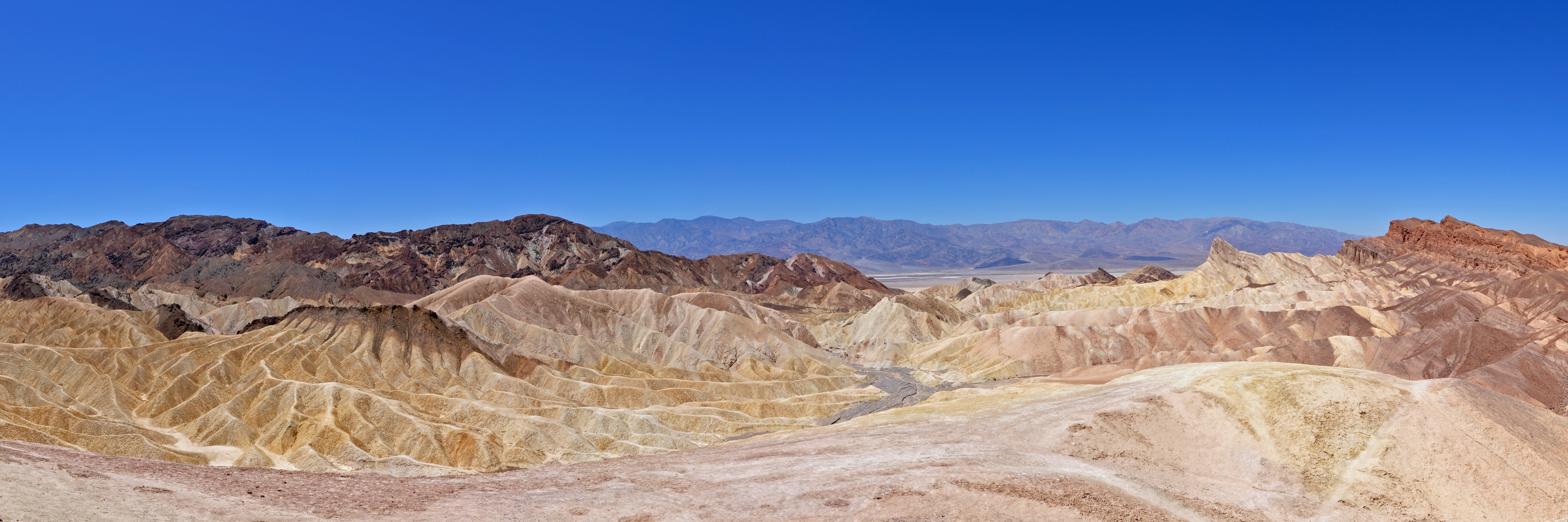 Zabriskie Point - Death Valley - California - USA.